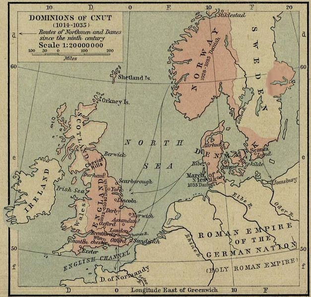 I doctored the wiki Image:Cnut 1014 1035.jpg, in accordance with information on - - which states England is 1013-1042 with short interruptions ruled by the kings of Denmark. 1028 Canute the great also conquers Norway and a part of Sweden. User: WikieWikieWikie.